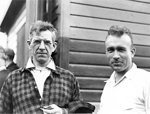 Benton MacKaye and Myron Avery. Copyright is held by the Appalachian Trail Conservancy.